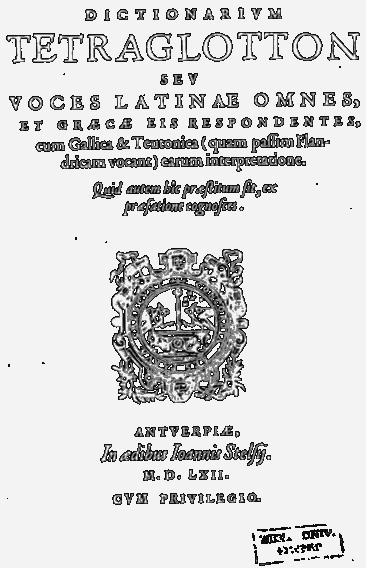 Dictionarium Tetraglotton seu Voces Latinae Omnes, et Graecae eis correspondentes, cum Gallica et Teutonica (quam passim Flandricam vocant) earum interpretatione Quid autem hic praestitum sit, ex praefatione cognosces. Antwerpiae, In aedibus Iohannis Stelsij. M.D. LXII. Cum privilegio.